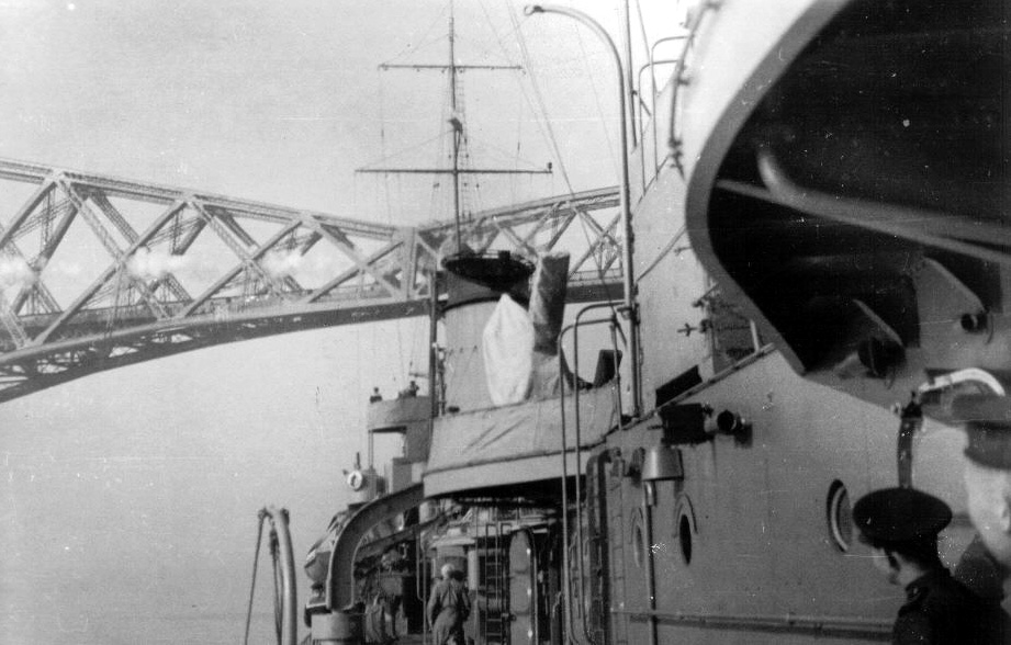 After a voyage from Poland, right before the German invasion (operation "Peking"), three Polish destroyers Blyskawica, Grom and Burza passed under the famous bridge on the Firth of Forth on September 1, 1939. Photo shows Grom or Blyskawica